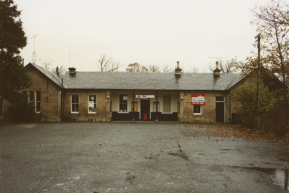 Tain station, from the approach